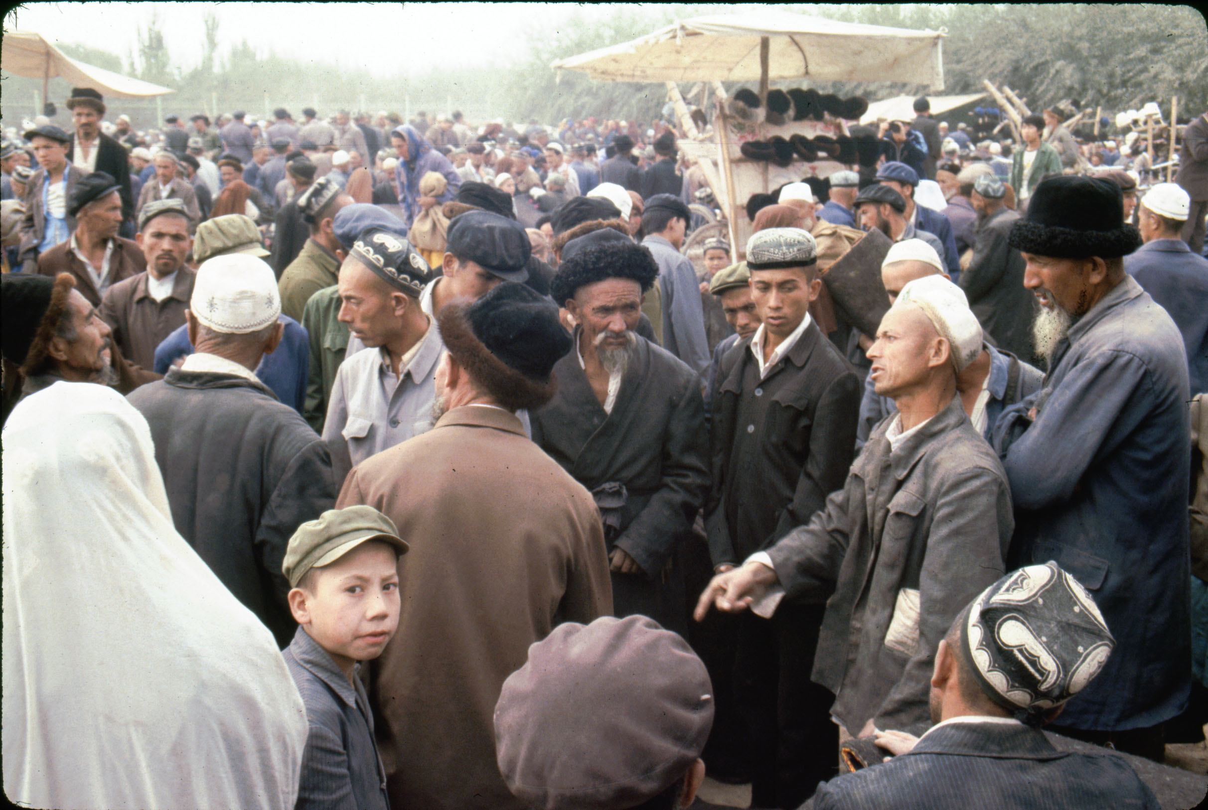 Trade argument between people at the open air bazaar; Kashgar, Xinjiang, China.